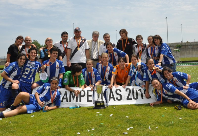 RCD Español Ladies, Copa de la Reina (Queen's Cup) 2010 winners.